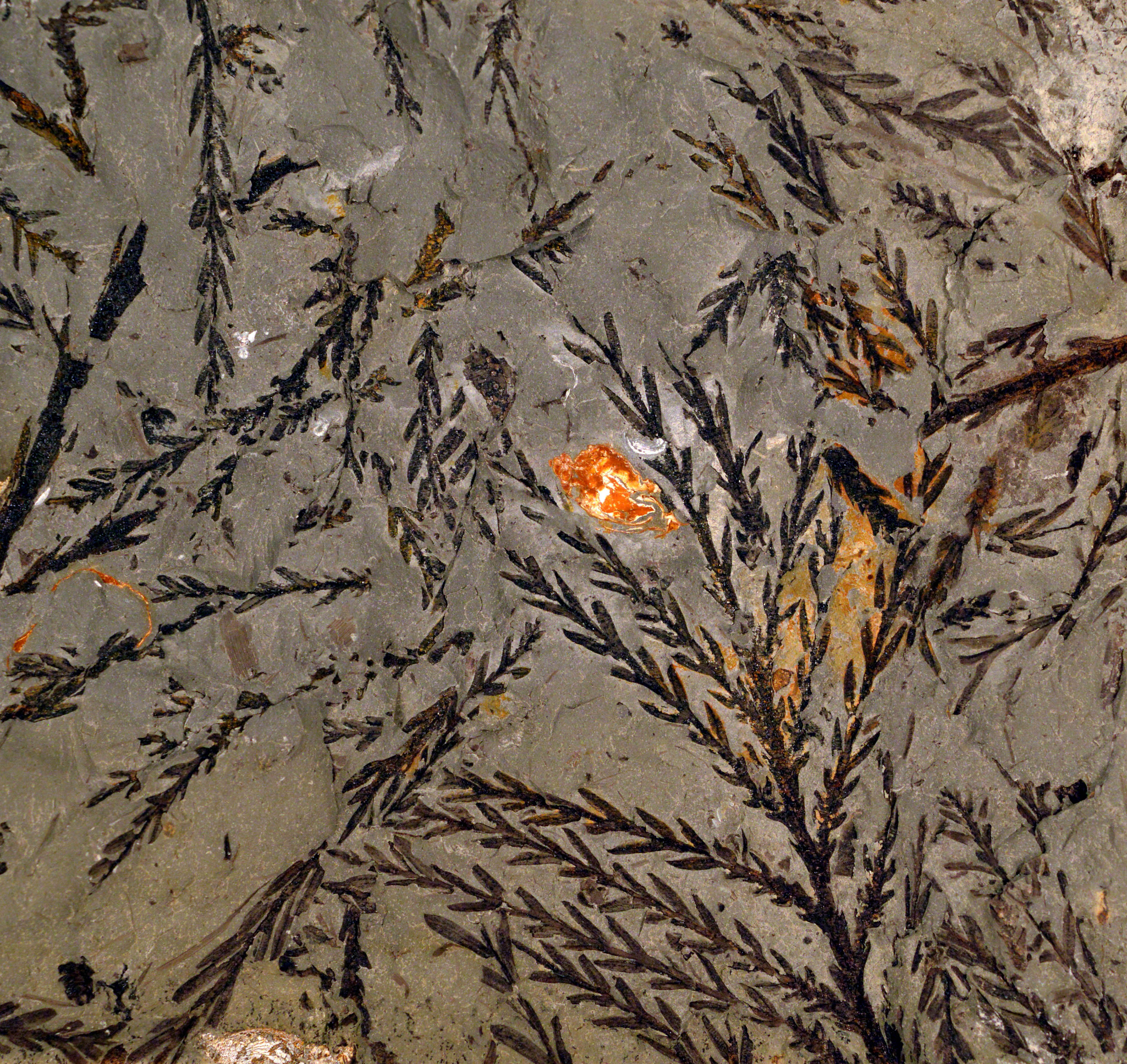 Fossil foliage of Glyptostrobus europaeus from the Paskapoo Formation.